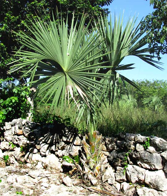 A Sabal yapa referred to by the Maya as Huano (WAN-oh). Some of its fronds have been removed for thatching roofs.